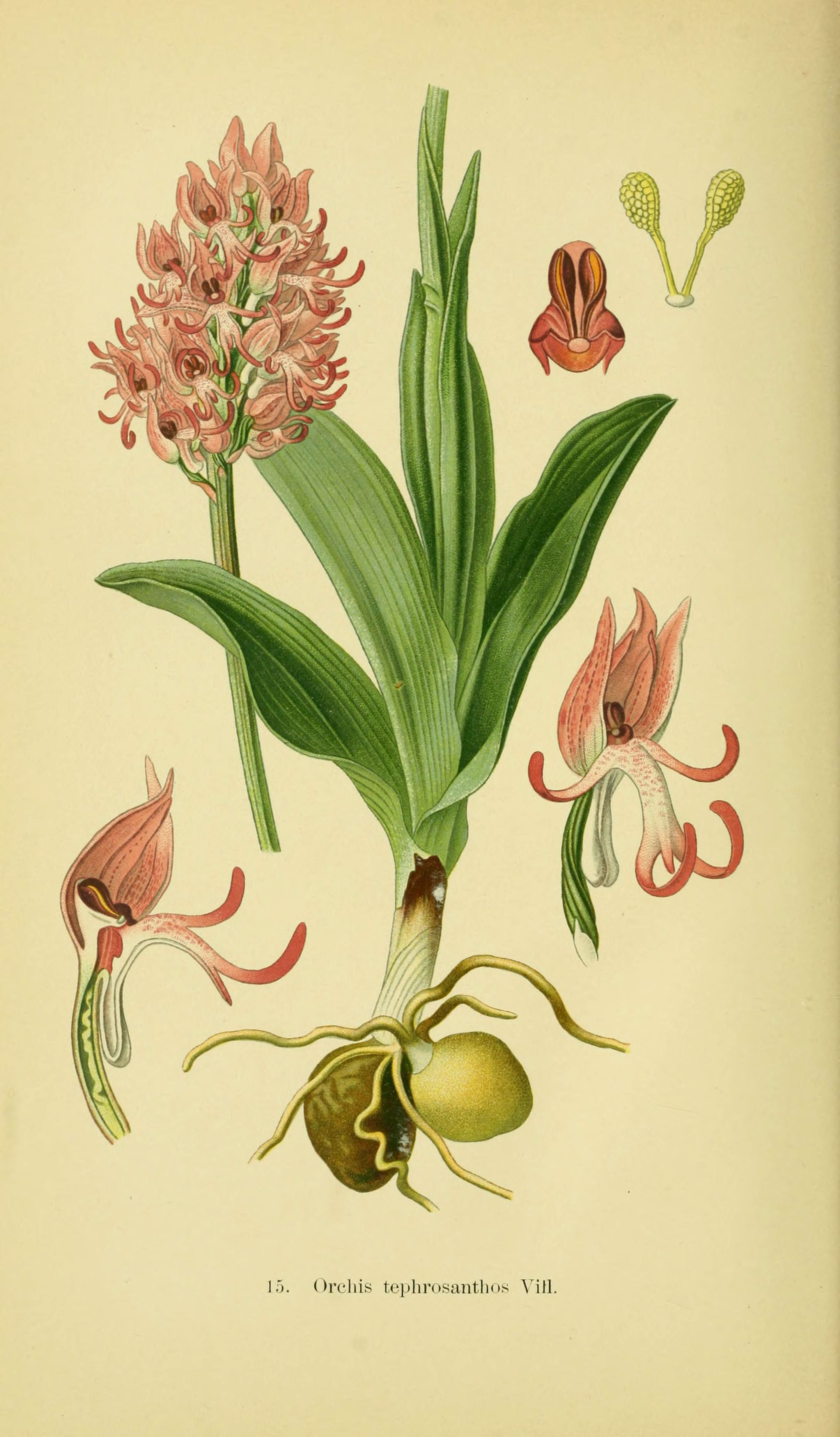 15. Orchis tephrosanthos Vül.